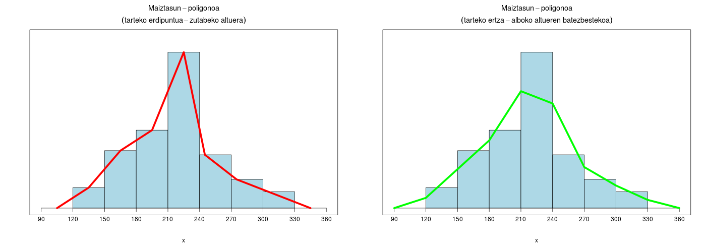 Frequency polygon and edge frequency polygon with source histogram.